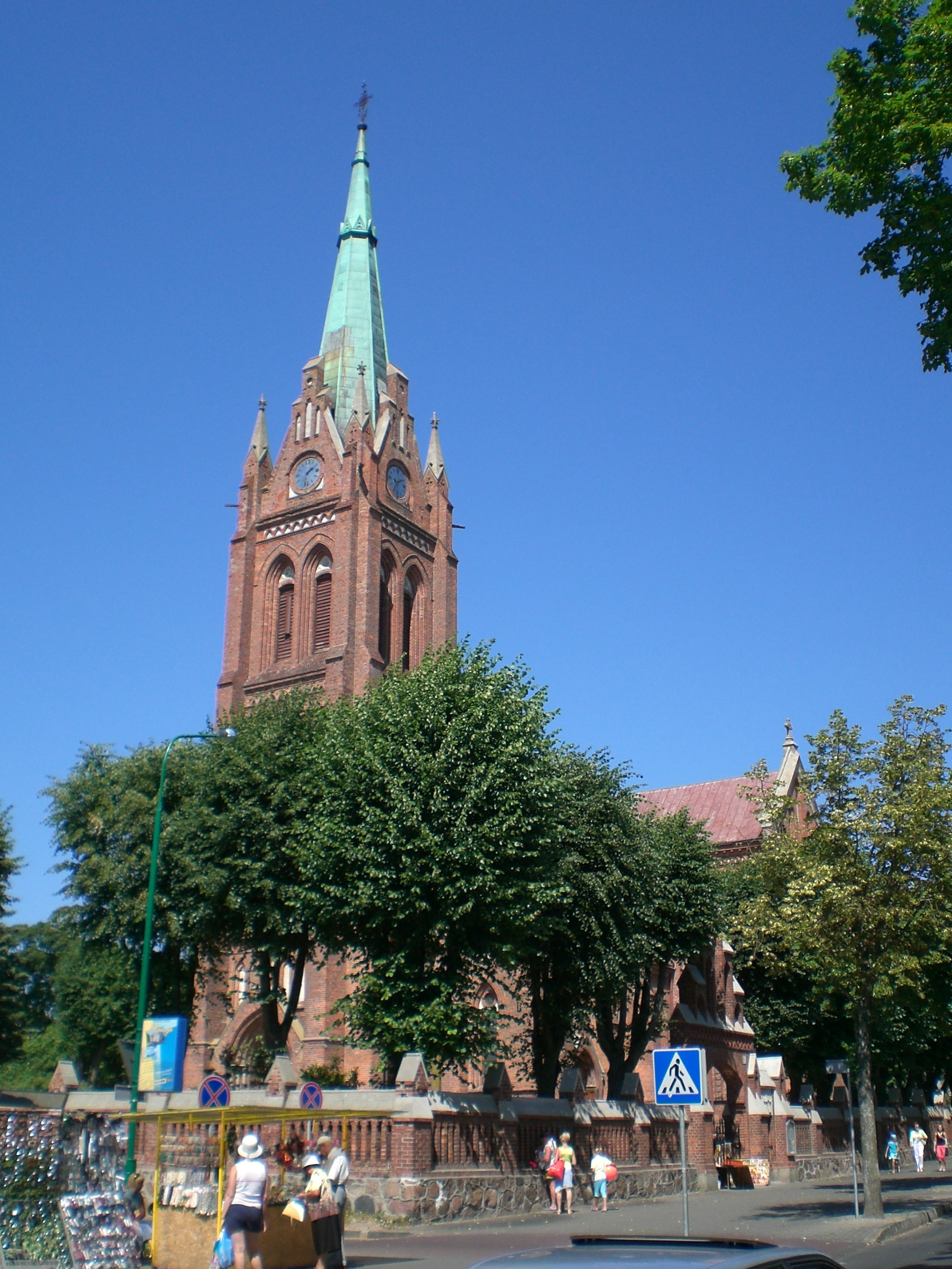 The Main church in the Baltic Sea resort Palanga (Lithuania)